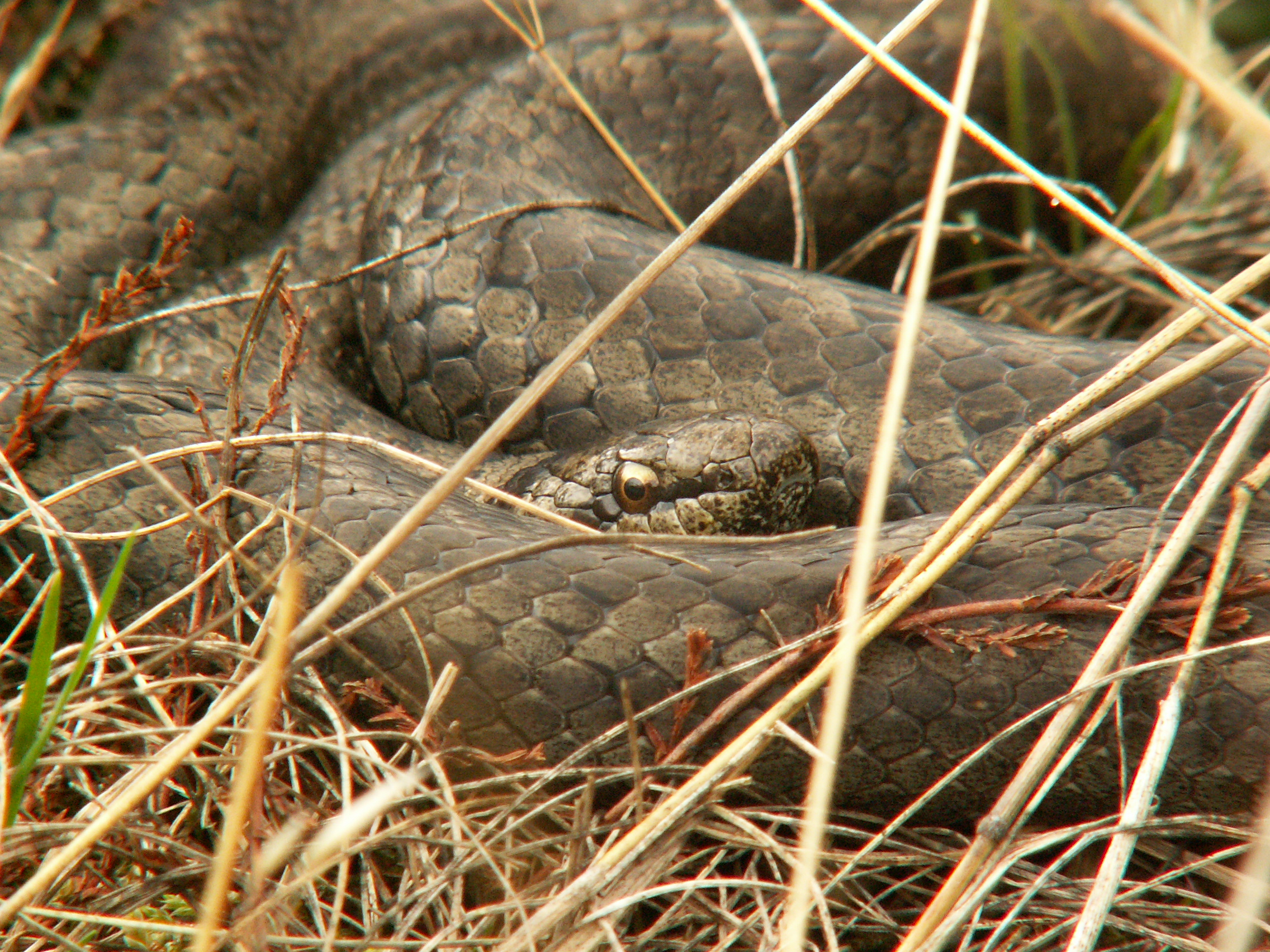 Coronella austriaca female from the Veluwe, the Netherlands